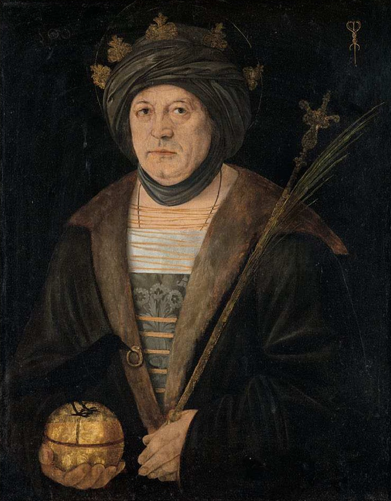 Portrait of Anglo-Saxon king of Northumbria, martyr St Oswald, the patron saint of weather